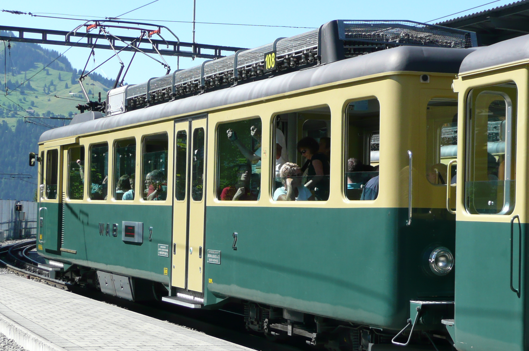 Wengernalp rack railway motor coach BDhe 4/4 108 of 1958. Since 2004 electrical doors swinging outside in parallel and electronic display of destination. Wengen station – 2009-08-05